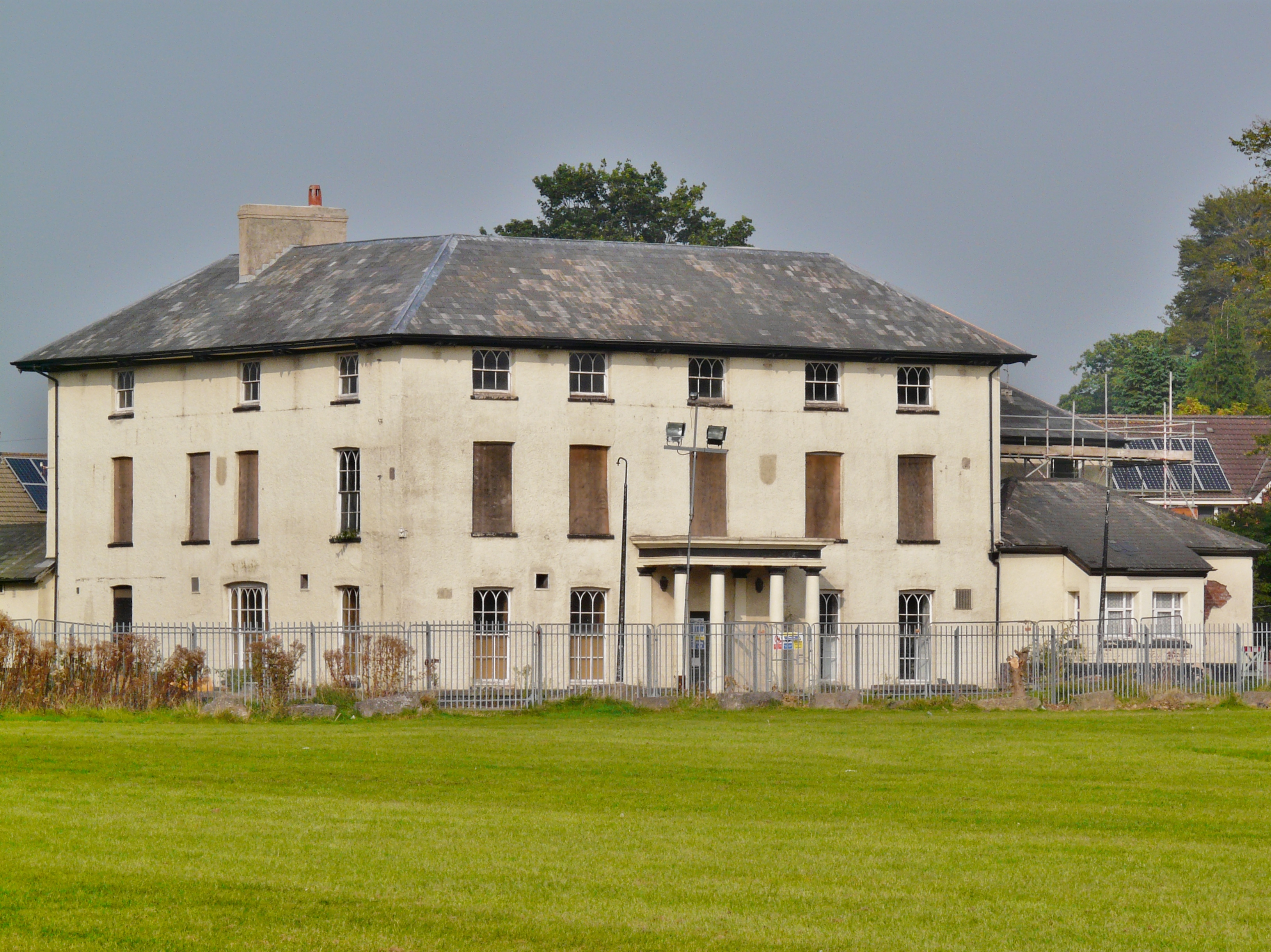 Llanrumney Hall PH Wikidata has entry Q17741407 with data related to this building.